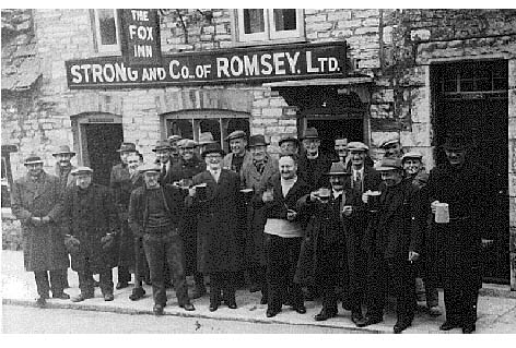 Photo was taken in 1935. It shows 22 members of the Order with their chaplain, the Rector of Corfe Castle on Shrove Tuesday, 1935. In the background is the Fox Inn, which is still the base for the start of the Shrove Tuesday events.